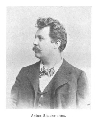 Photograph of Anton Sistermans (1865-1926), Dutch opera singer.